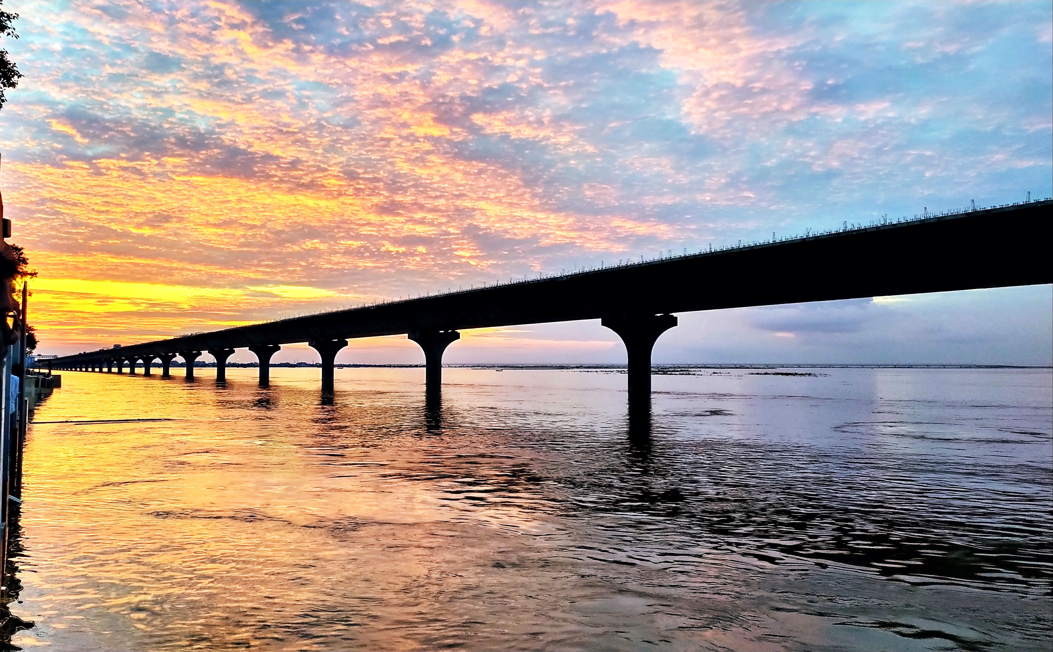 Sunset view of Ganga Ghat from Mishri ghat patna